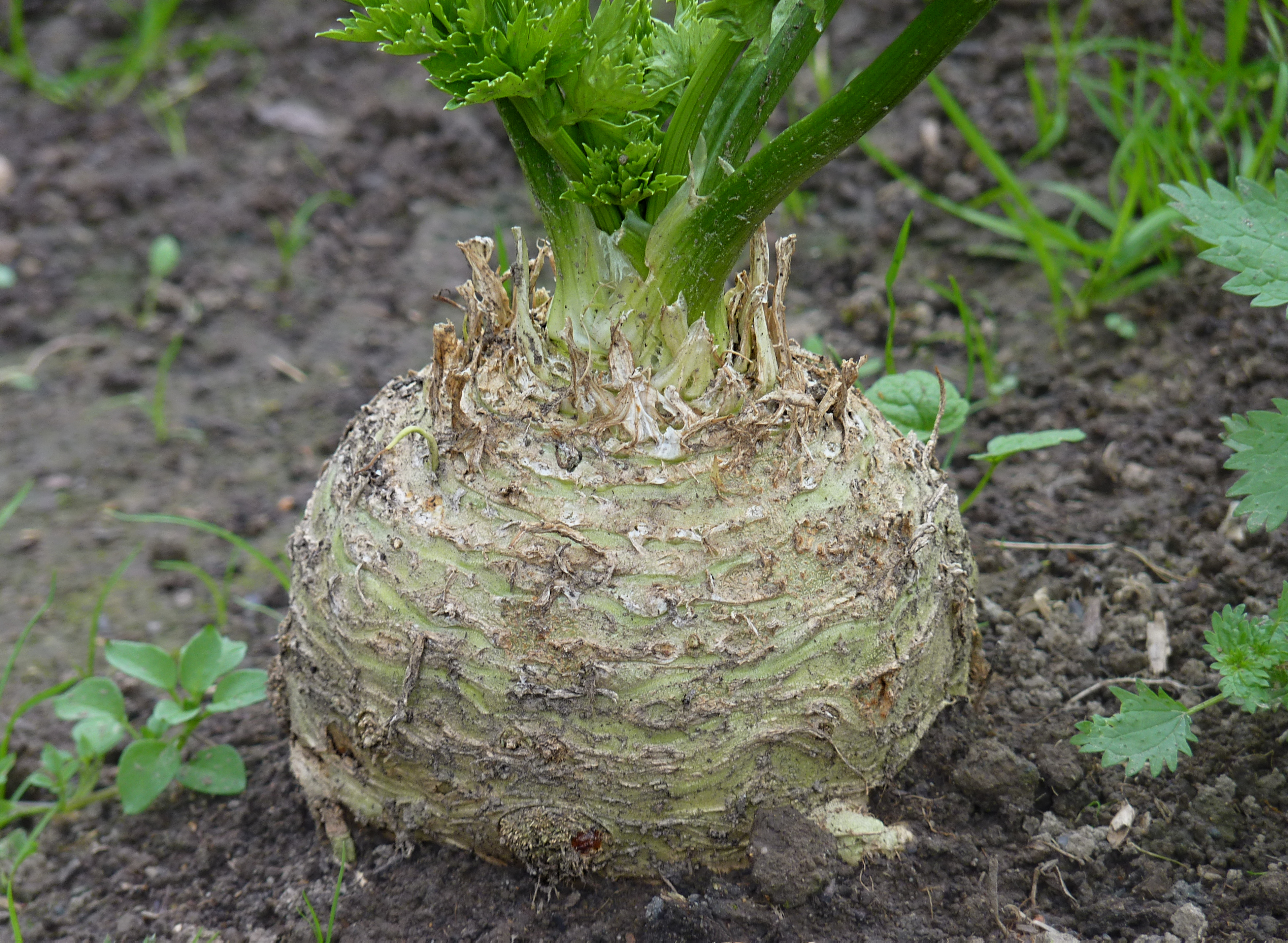 Celeriac in a vegetable garden in Belgium.